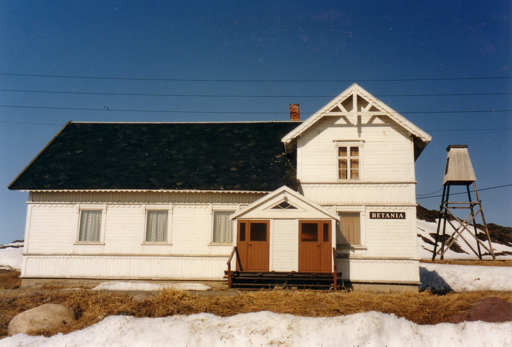 The Chapel of Kiberg, North Norway